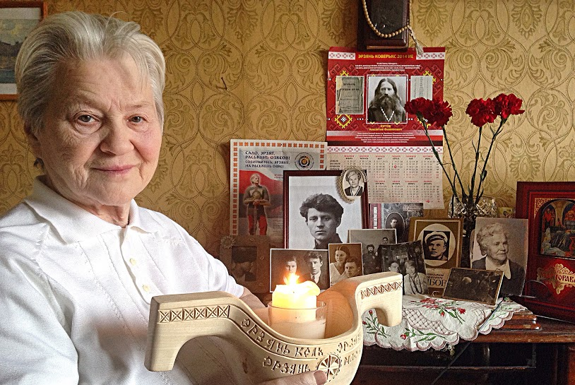 Galina Popova (Ryabov) Day Mastorava remembers his father (Vladimir Ryabov) and other Erzyas.